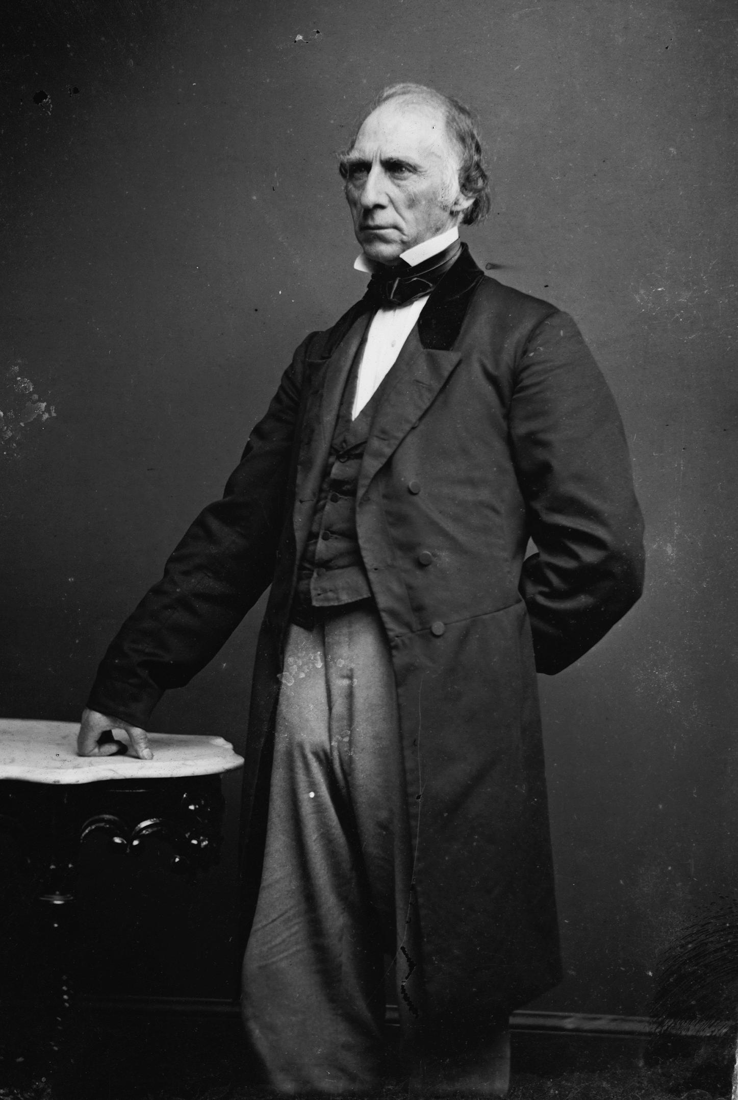 Anson P. Morrill. Library of Congress description: "Morrill, Hon. A. P. of Maine".